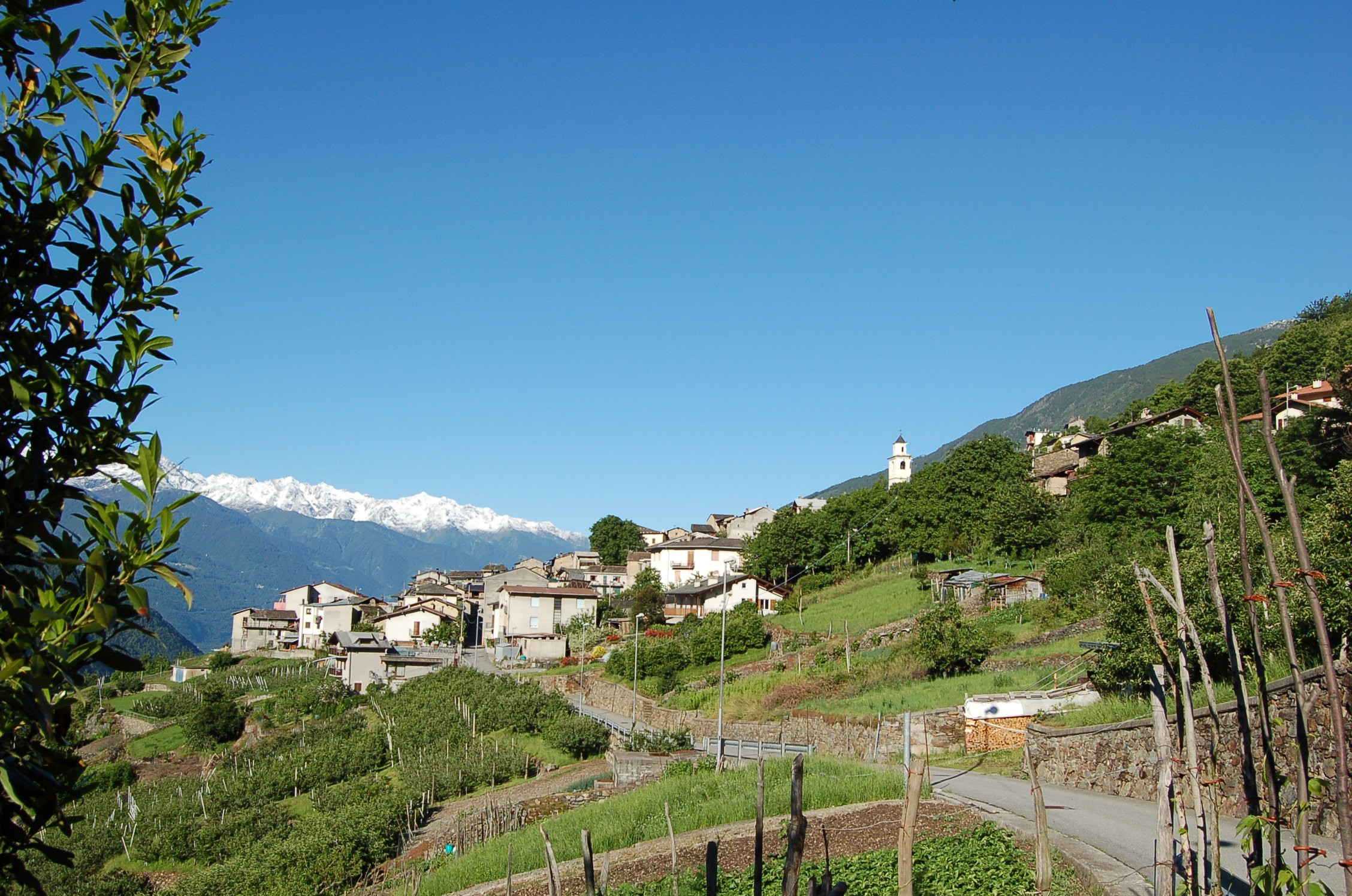 Panoramica di baruffini Tirano Sondrio